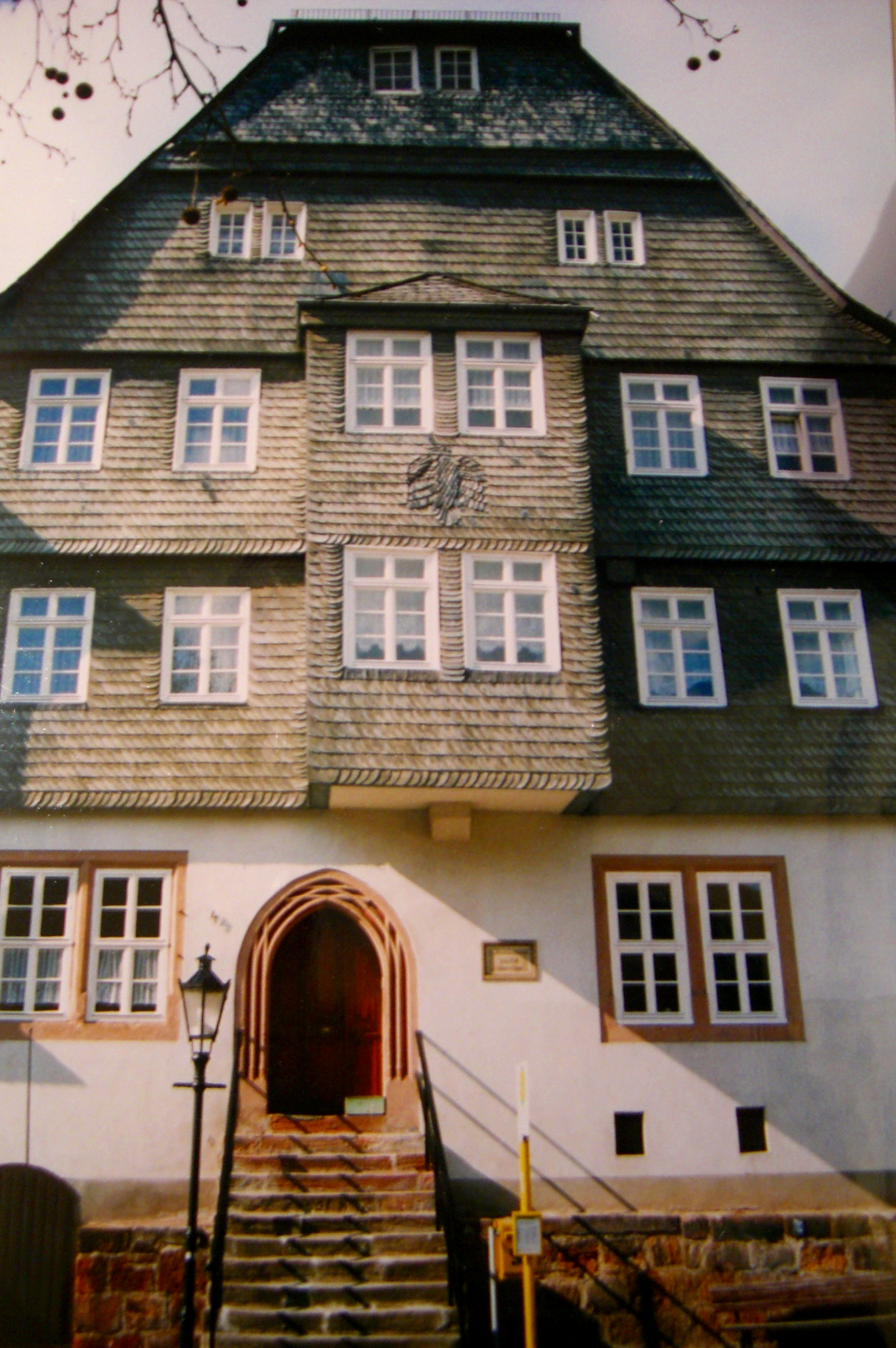 House of the german philosopher Friedrich Albert Lange Marburg/Lahn, Barfüßerstraße 4